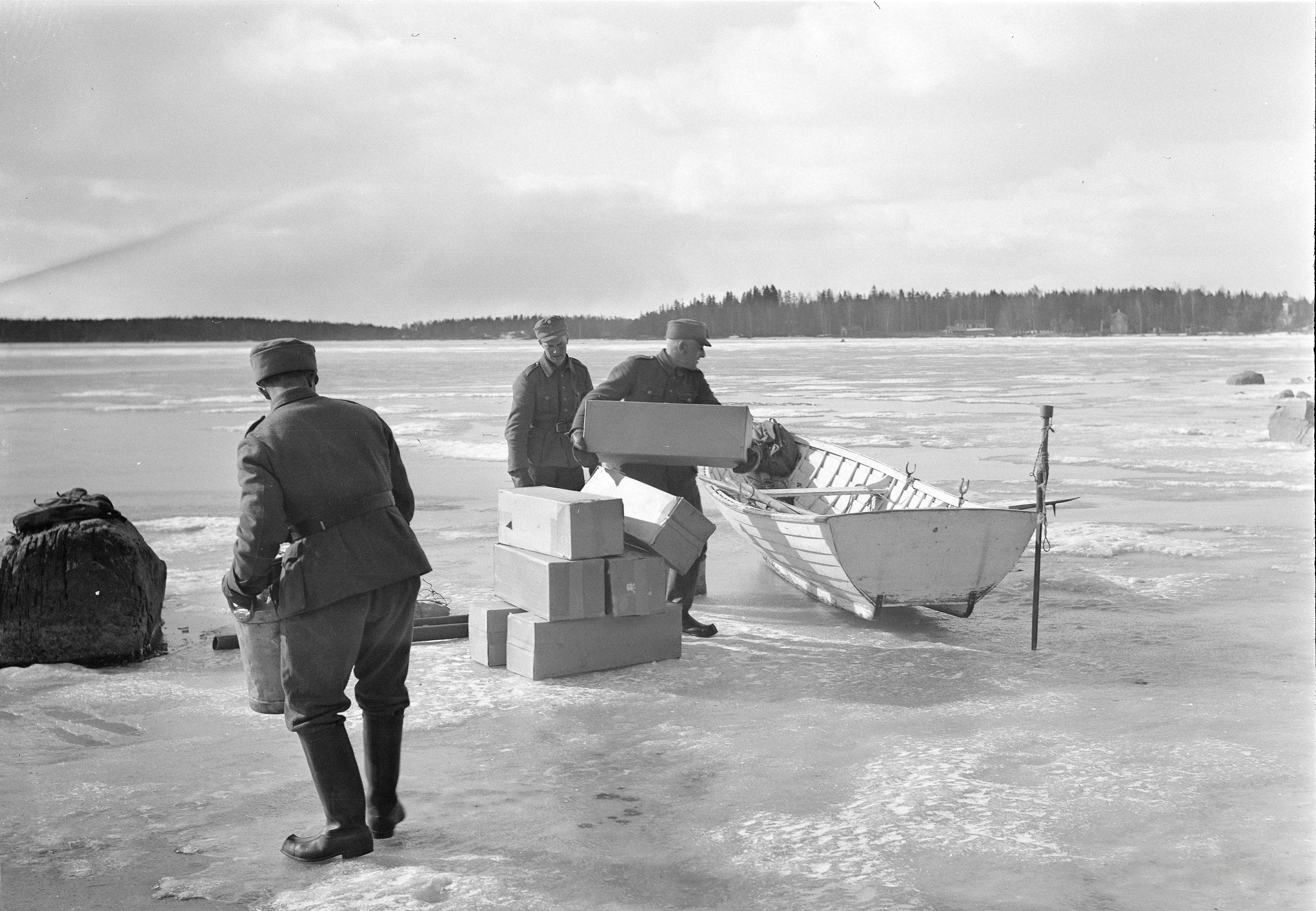 Groceries for Miessaari fortress being lifted into a boat for transport. Miessaari 4 May 1942